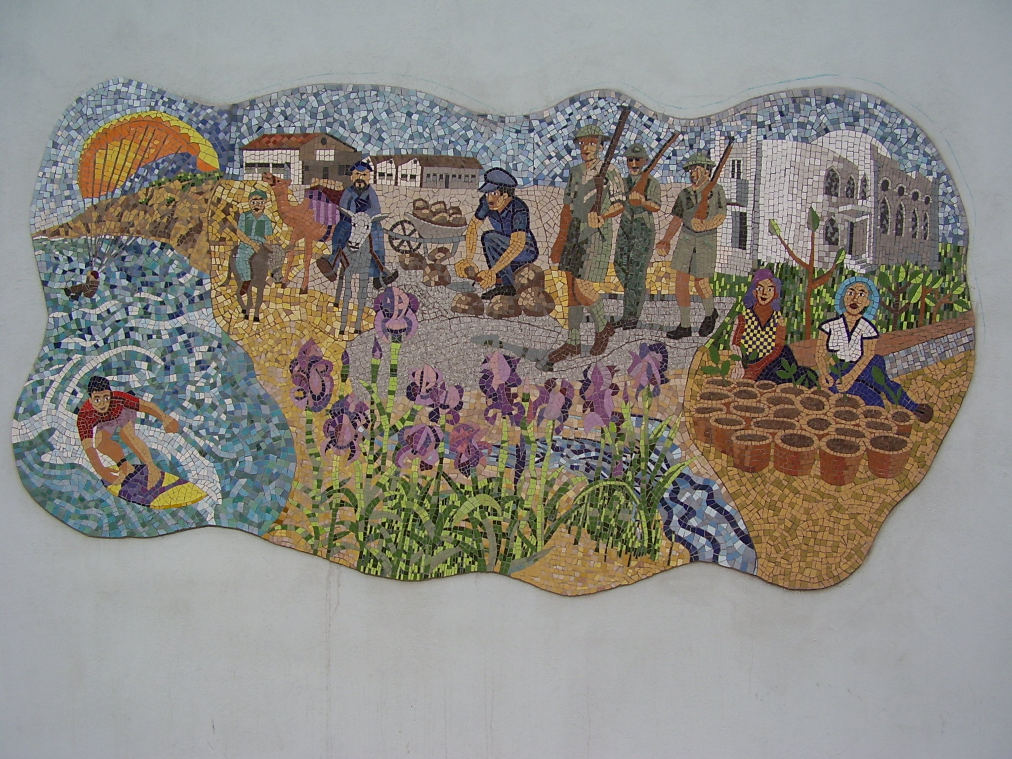 Mosaic by Arik Halfon in Netanya historic museum